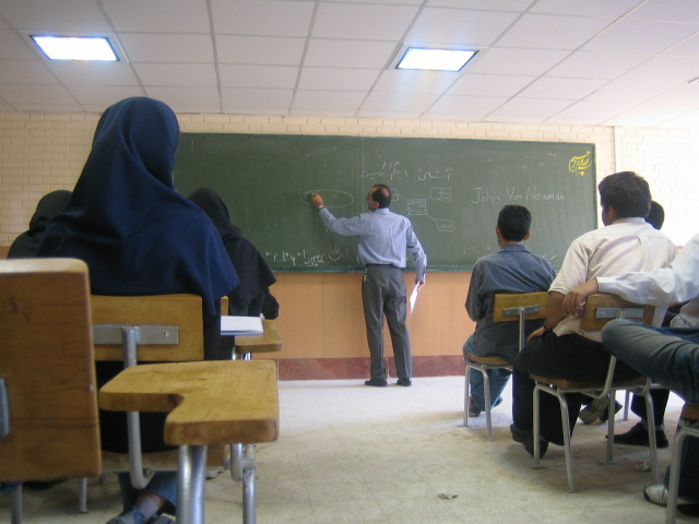 Ali Parsa as a tutor in Sharif University